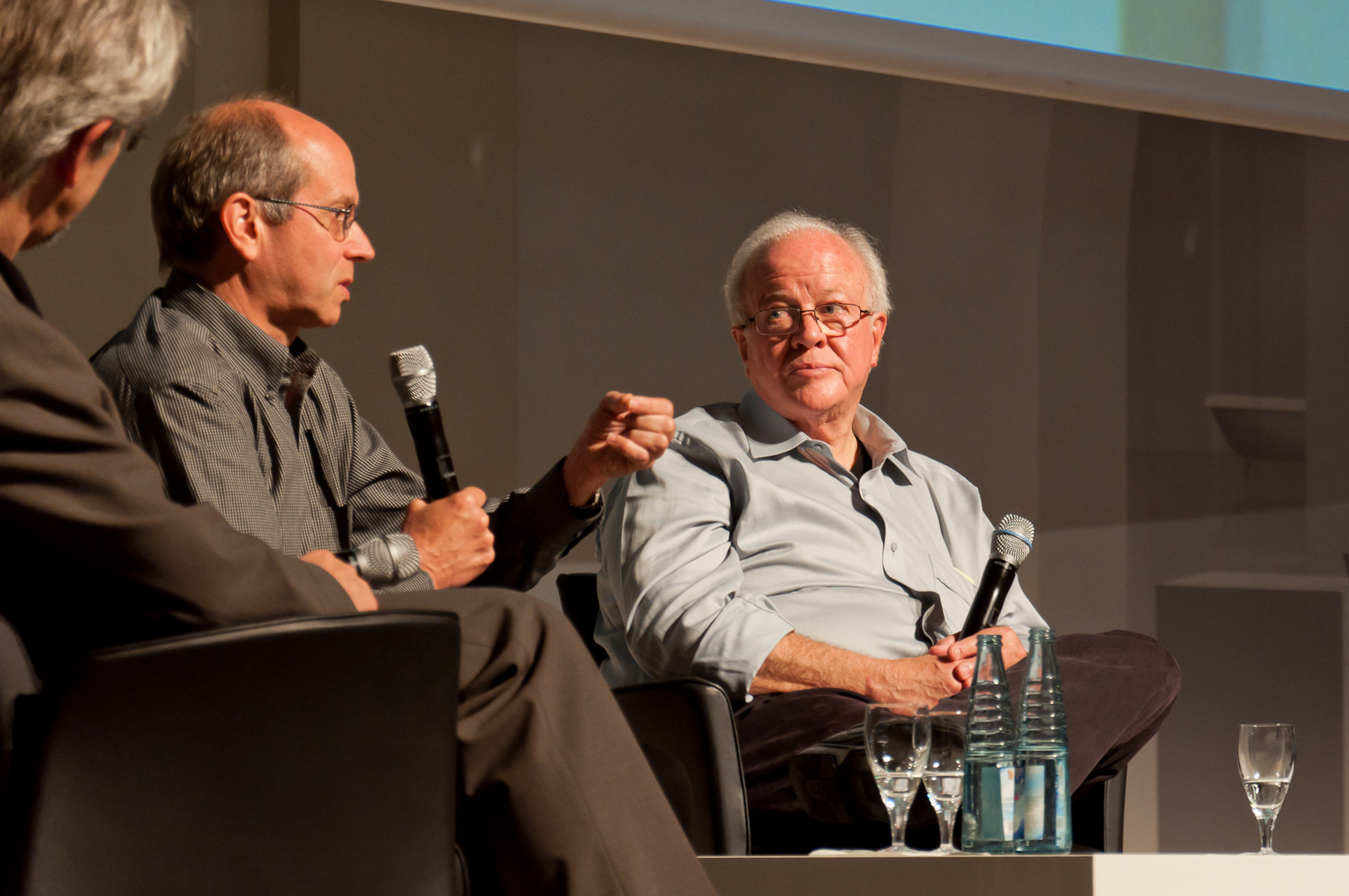 Douglas Trumbull (right) on a panel discussion with Ray Feeney (left) and Bill Desowitz at FMX 2012. (Haus der Wirtschaft, Stuttgart, Germany)